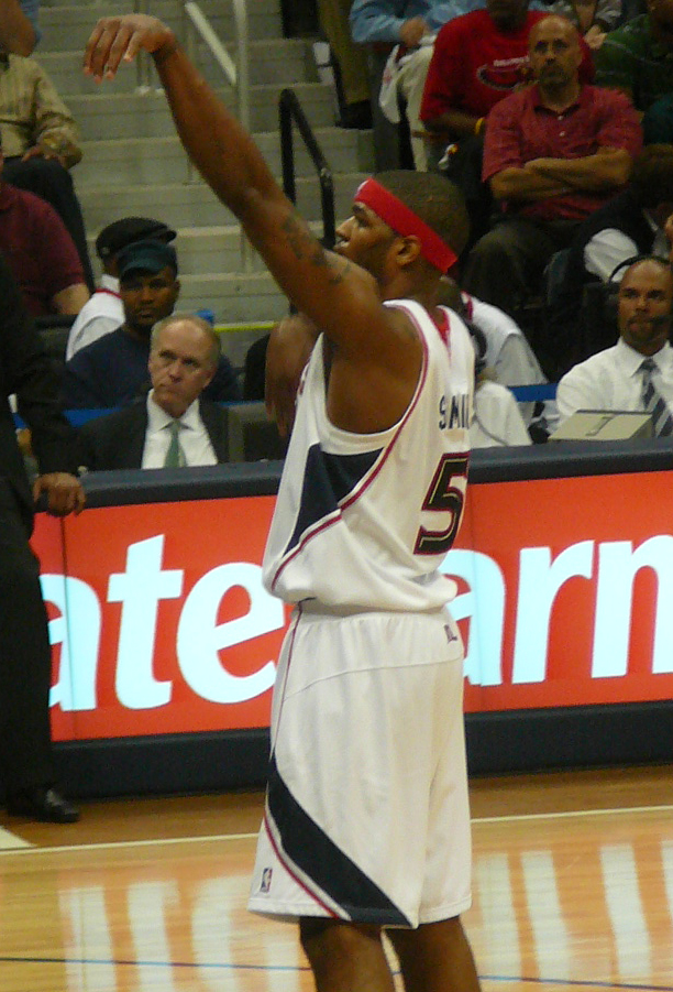 Template:Josh Smith, American basketballer